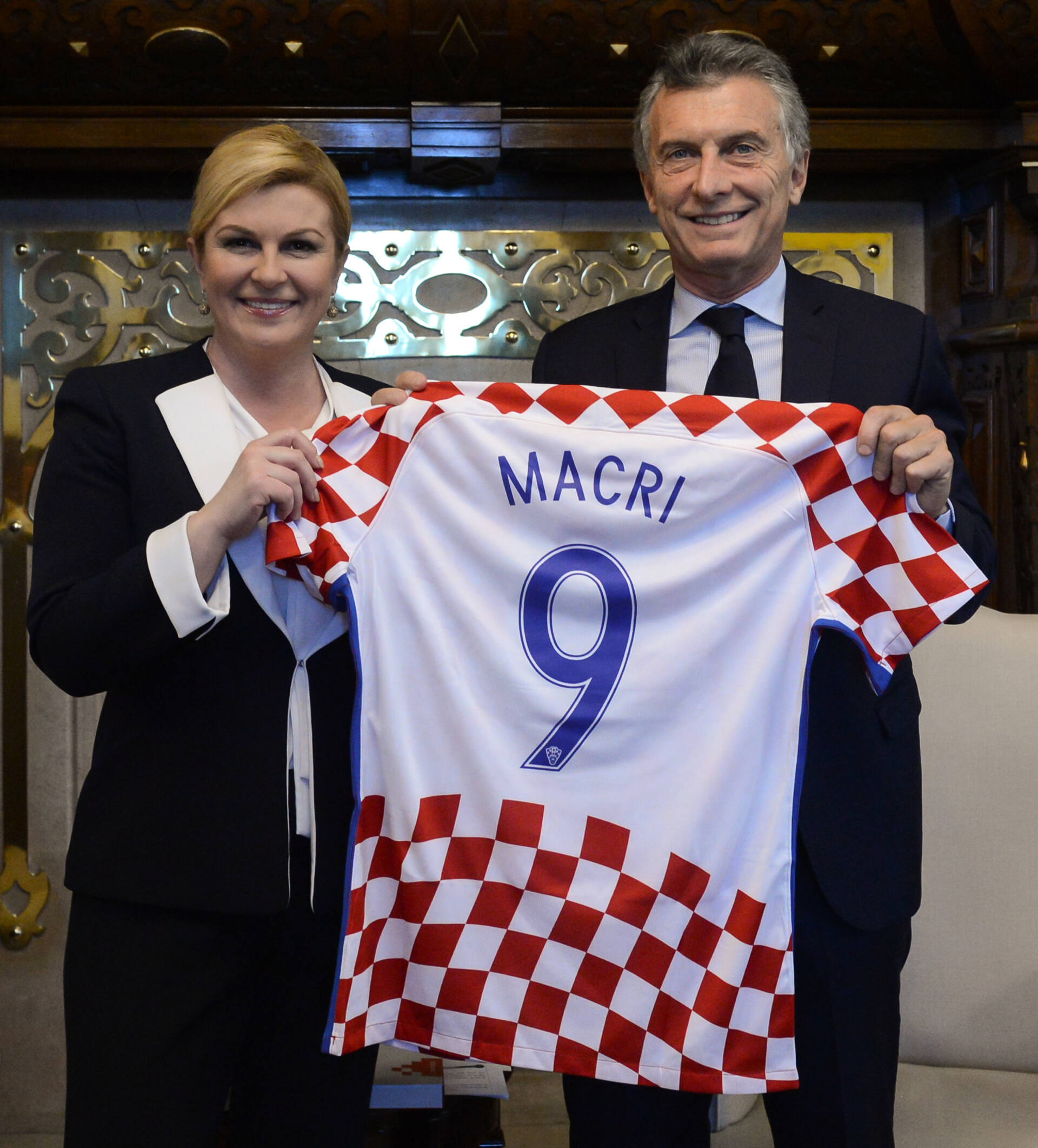 Mauricio Macri alongside the Croatian Presidente Kolinda Grabar-Kitarović in March 2018.